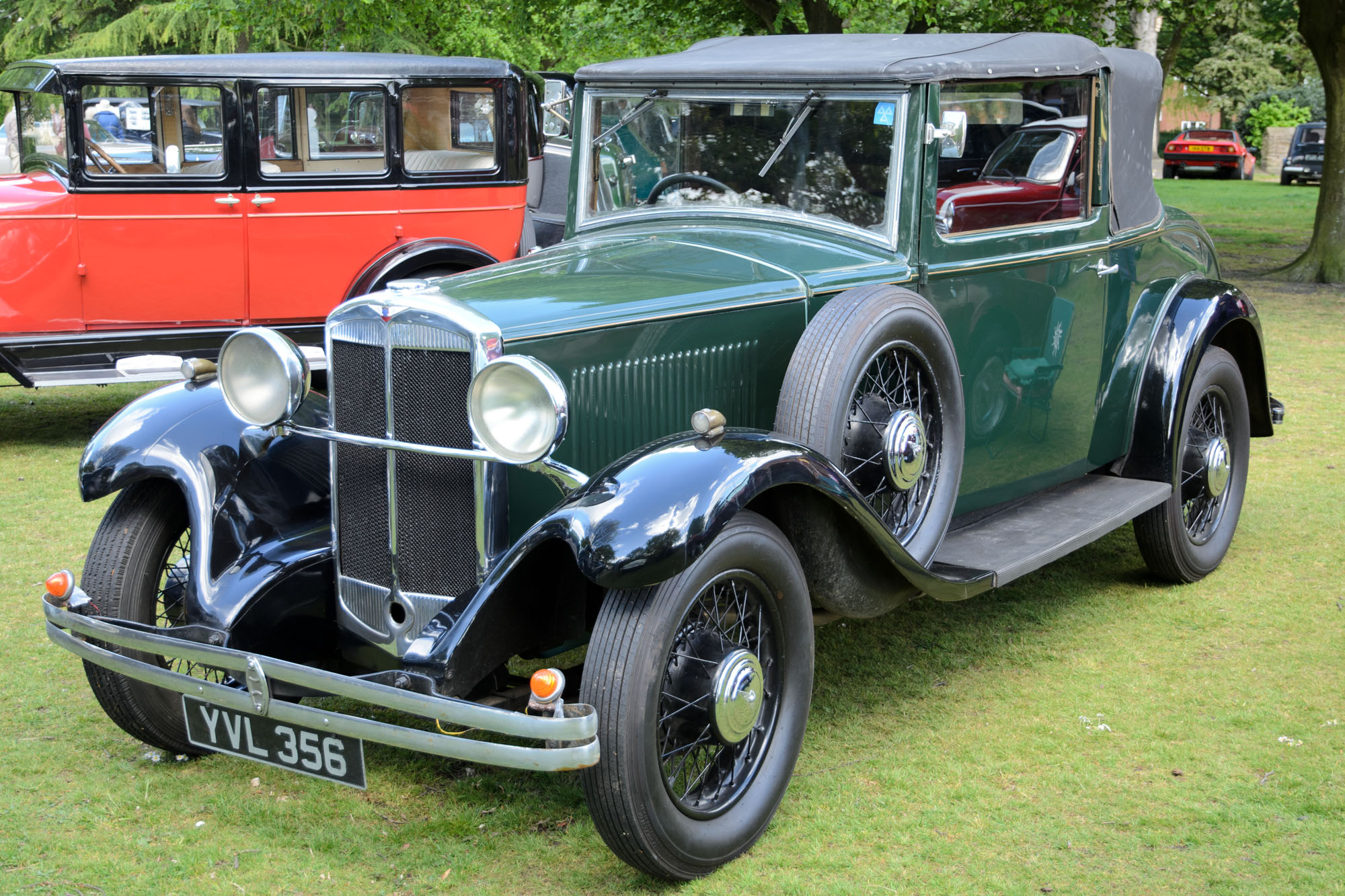 Hillman Wizard DHC (1931) Astley Park (Chorley) Classic Car Show 14/05/2017